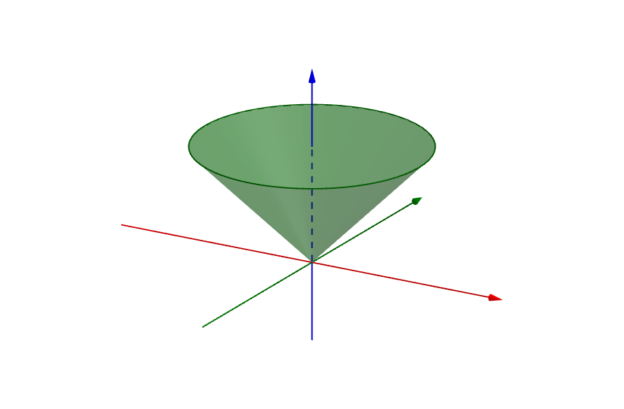 circular pyramid, example of a cone that is not finitely generated.